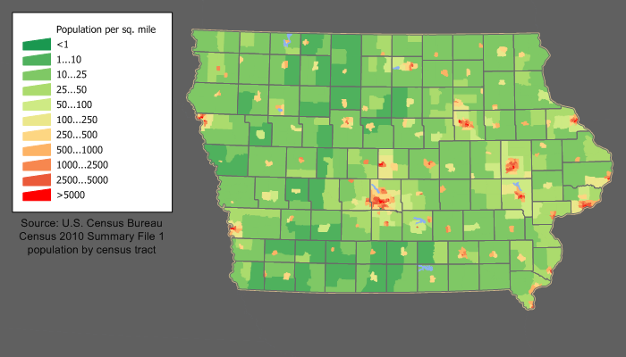 Category:U.S. State Population Maps Category:Iowa maps Iowa state population density map based on Census 2010 data. See the data lineage for a process description.